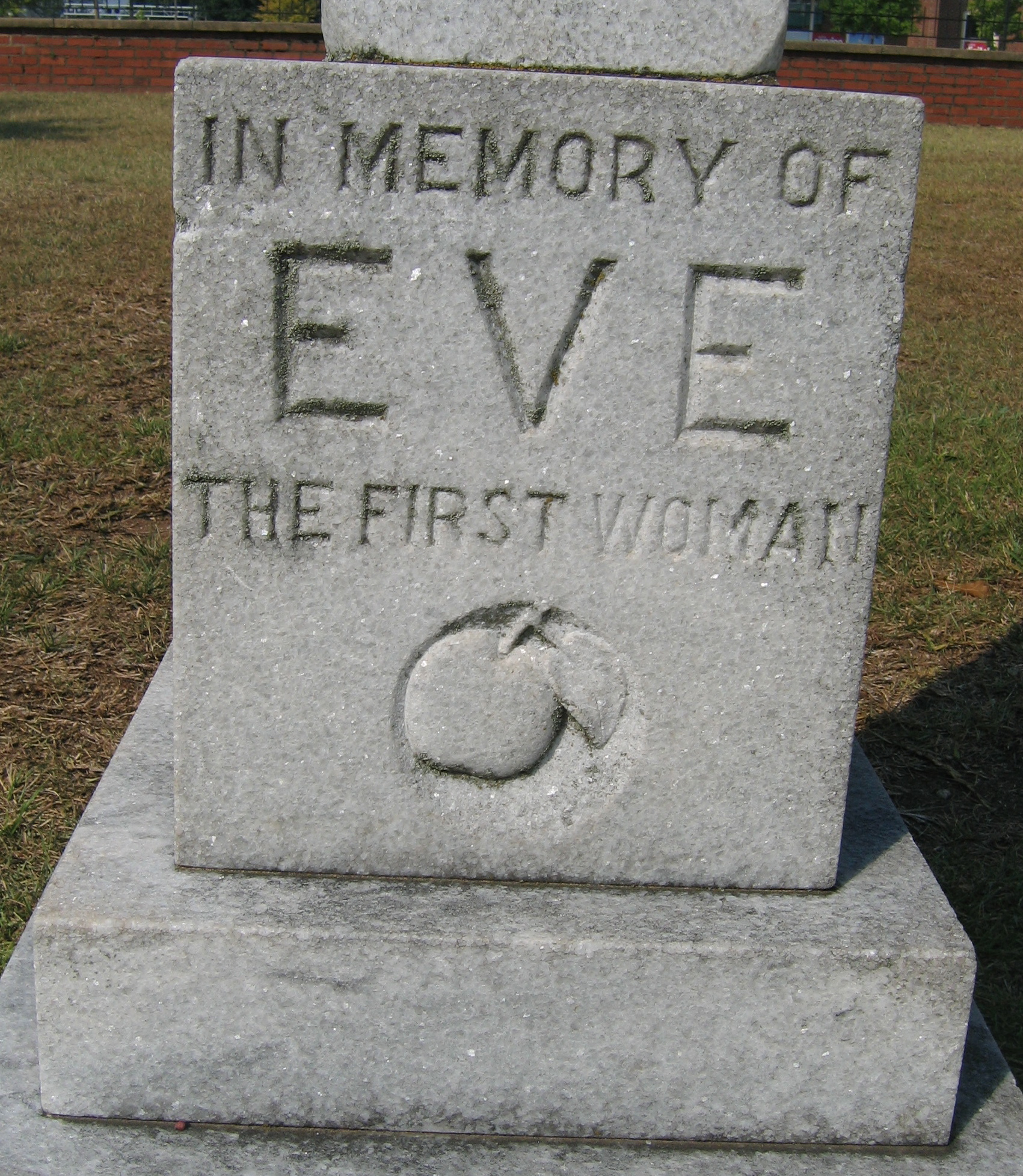 Monument to Eve "The First Woman" erected by journalist Robert Quillen (1887-1948) in his yard in Fountain Inn, South Carolina, 1925